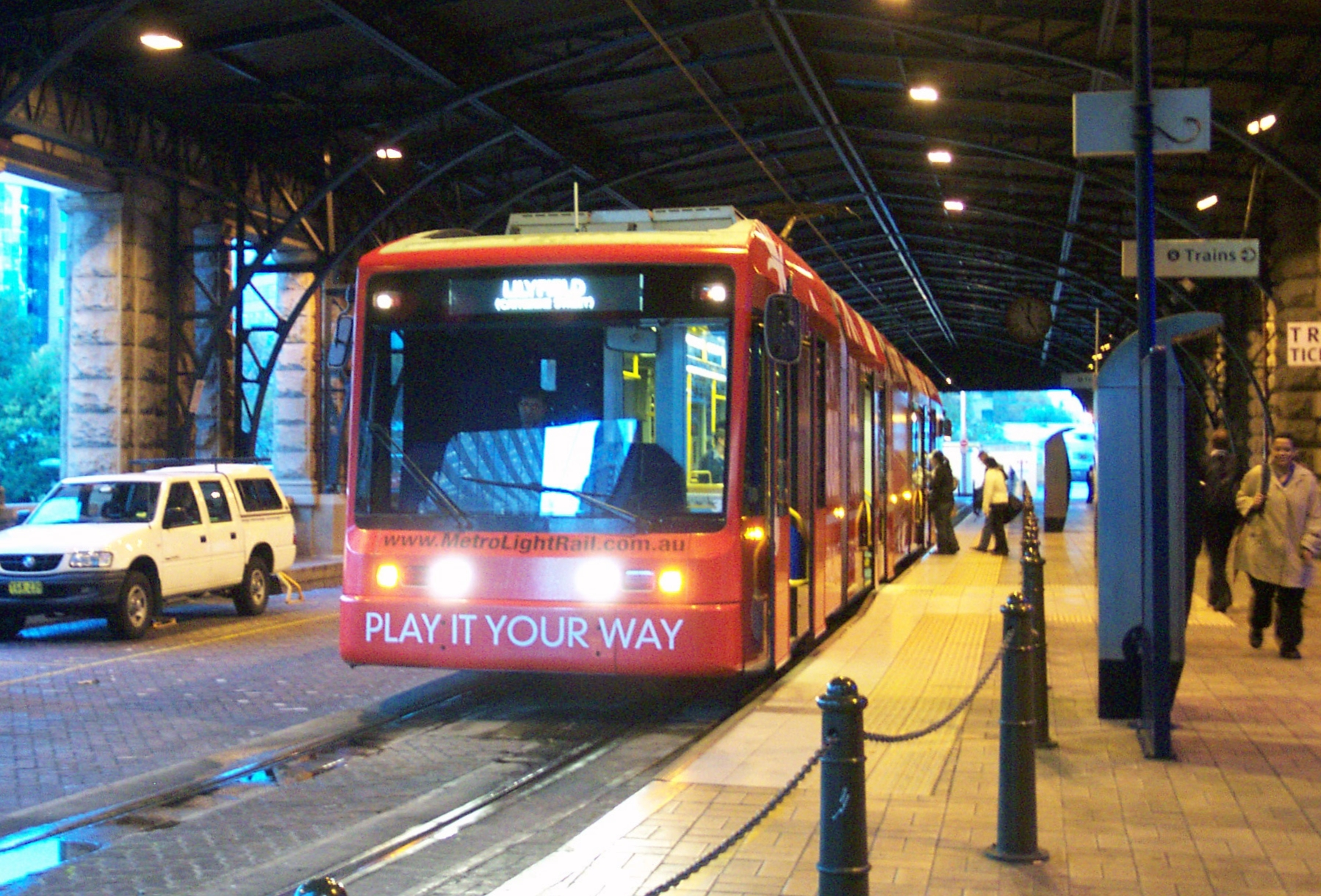 Metro Light Rail tram at Central.